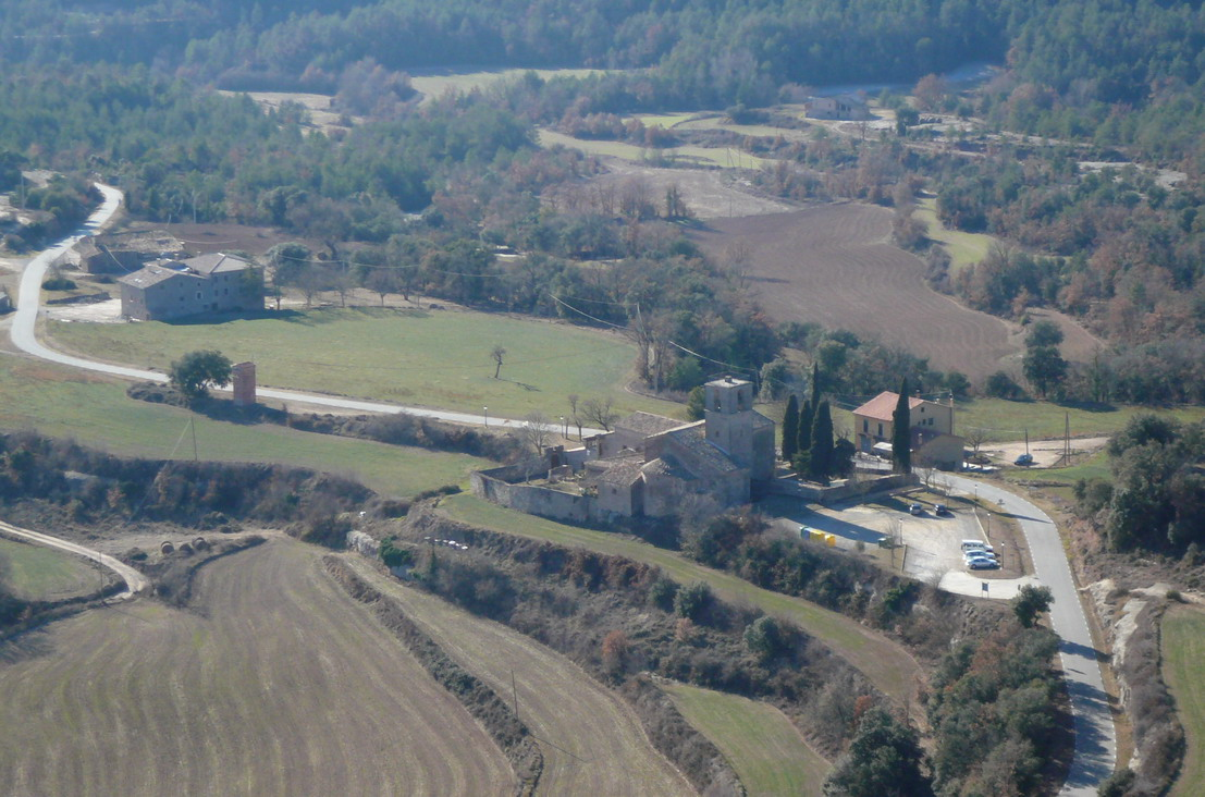 Lluçà (Osona, Catalunya) as seen from Lluçà castle. You can see Santa Maria de Lluçà monastery.